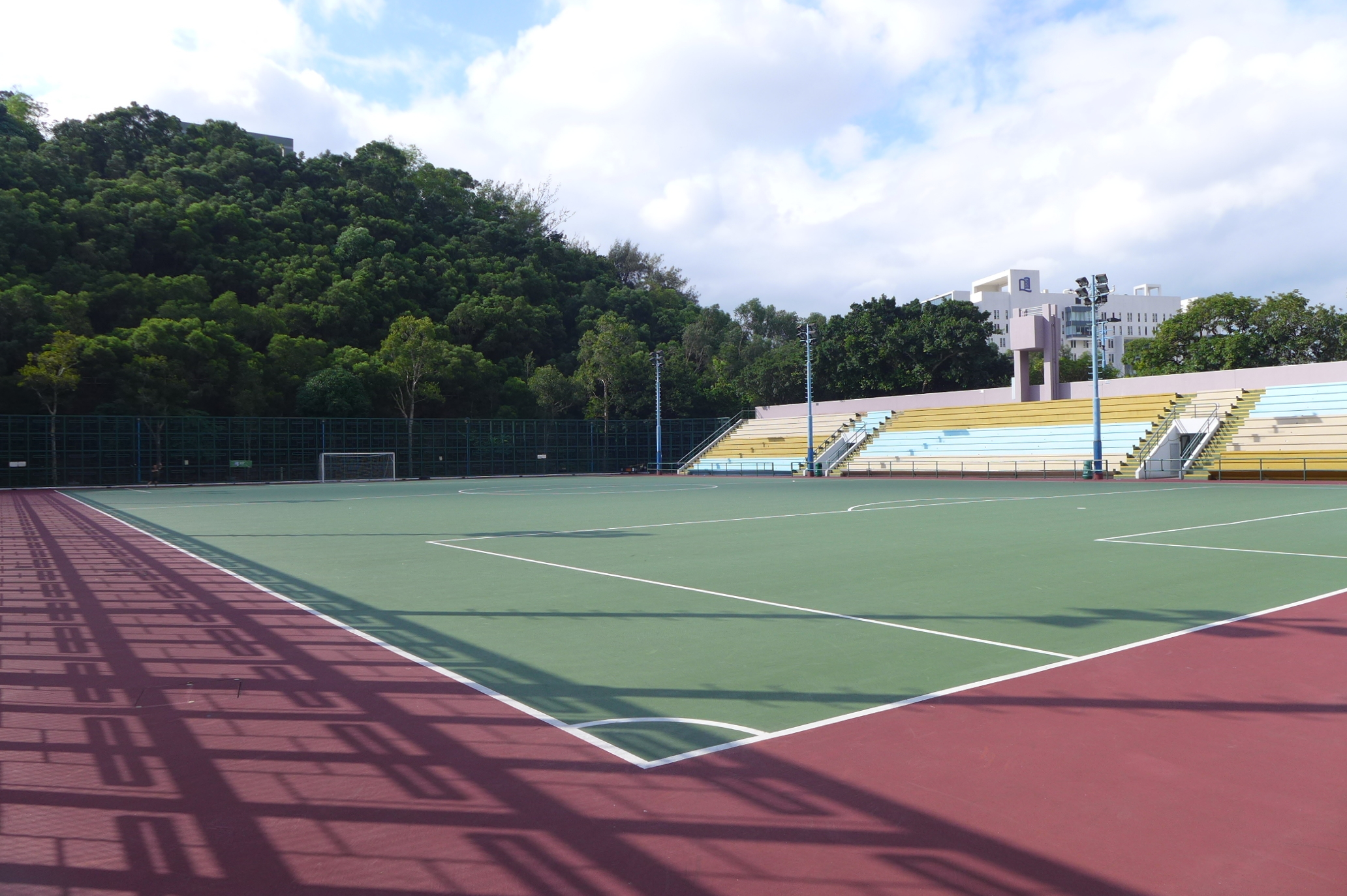 Junction Road Park